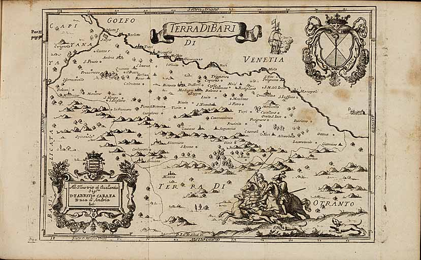 Illustration by Pacichelli of Apulia